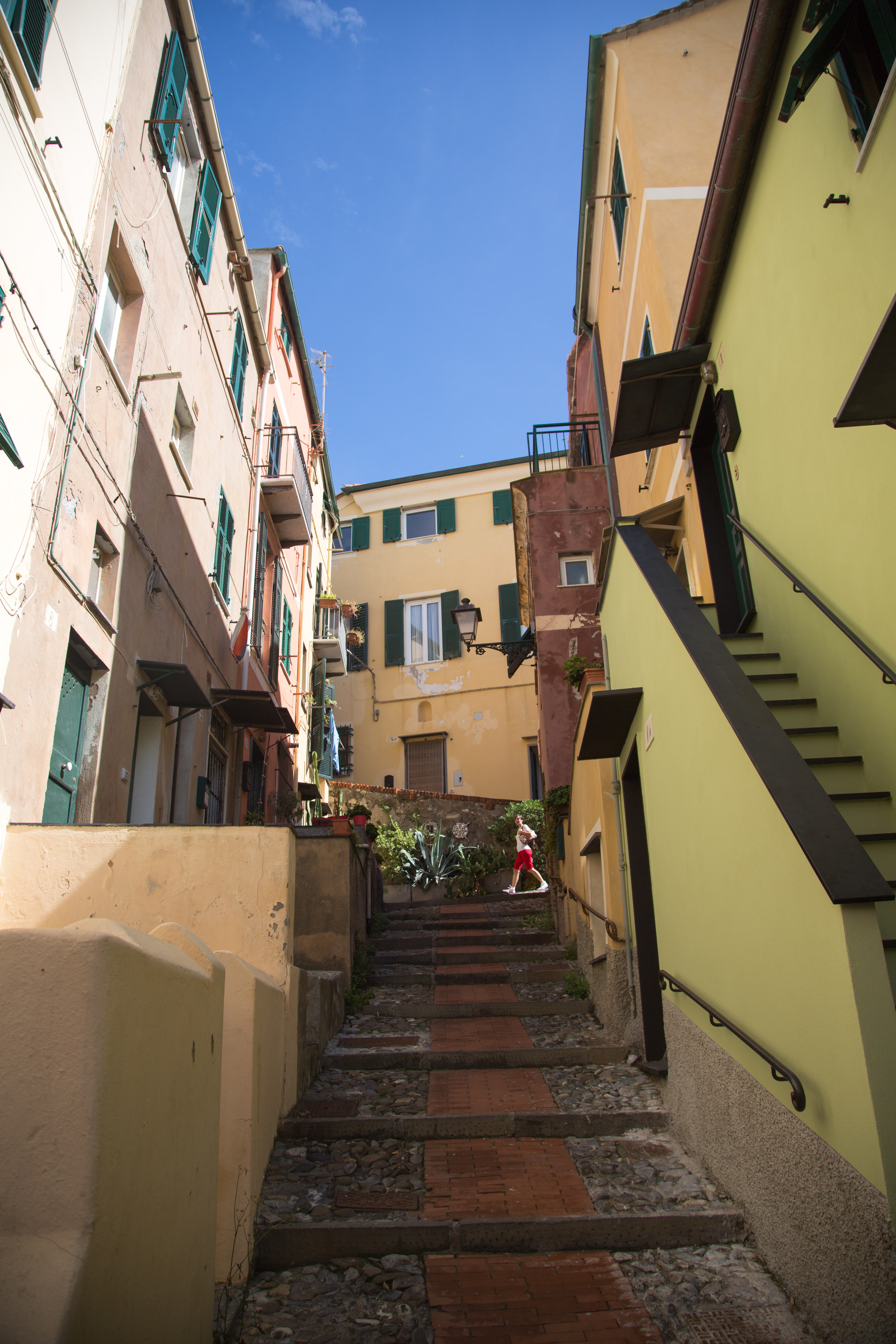 Boccadasse